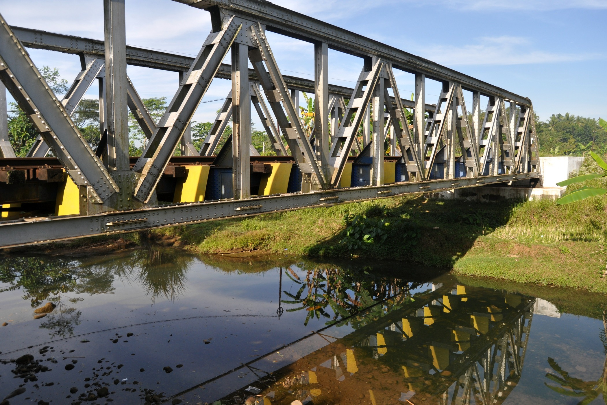 Railway bridge over the Ijo river at the border of Kebumen and Banyumas Regency, Central Java.